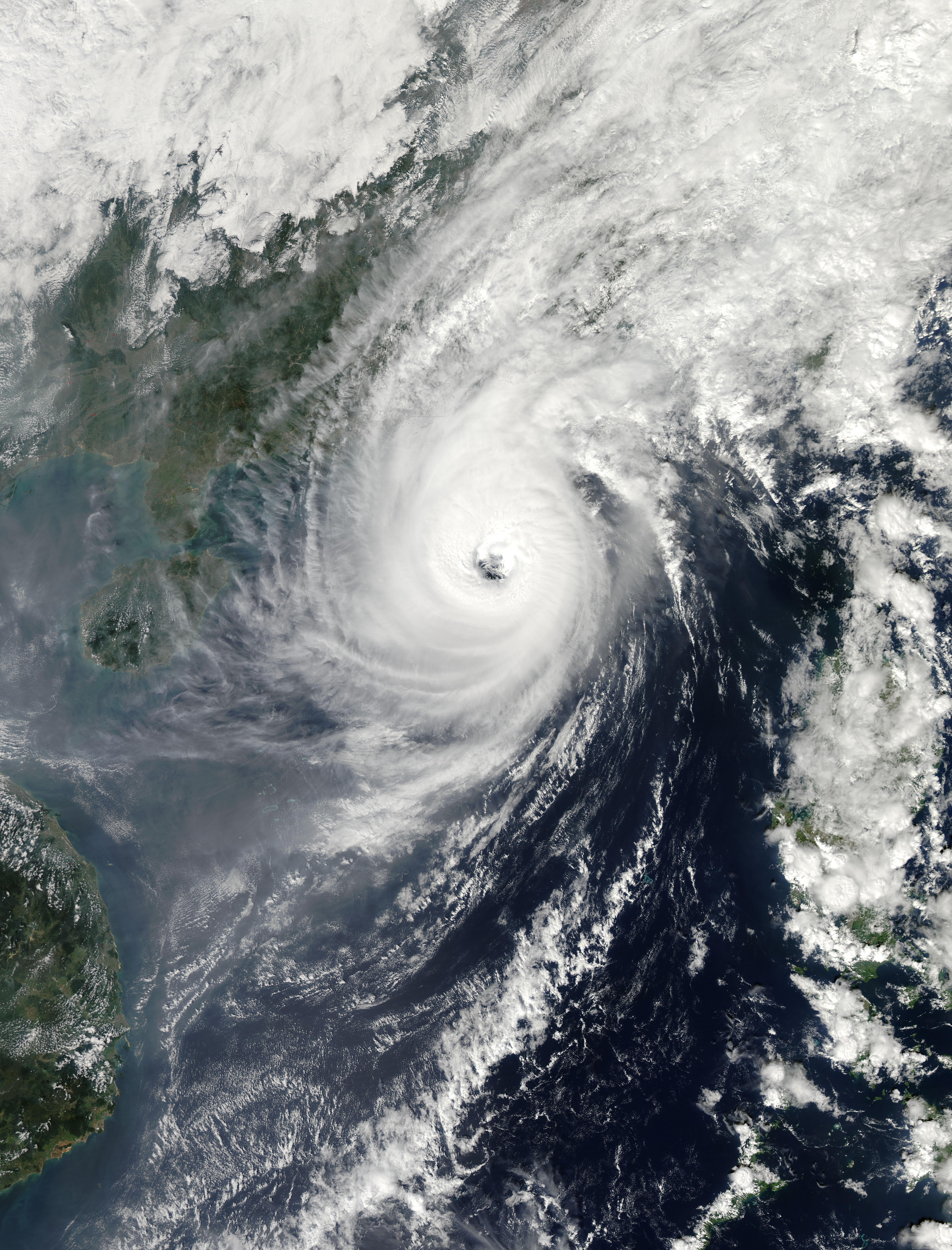 Typhoon Krosa at peak intensity in the northern South China Sea on November 2, 2013.